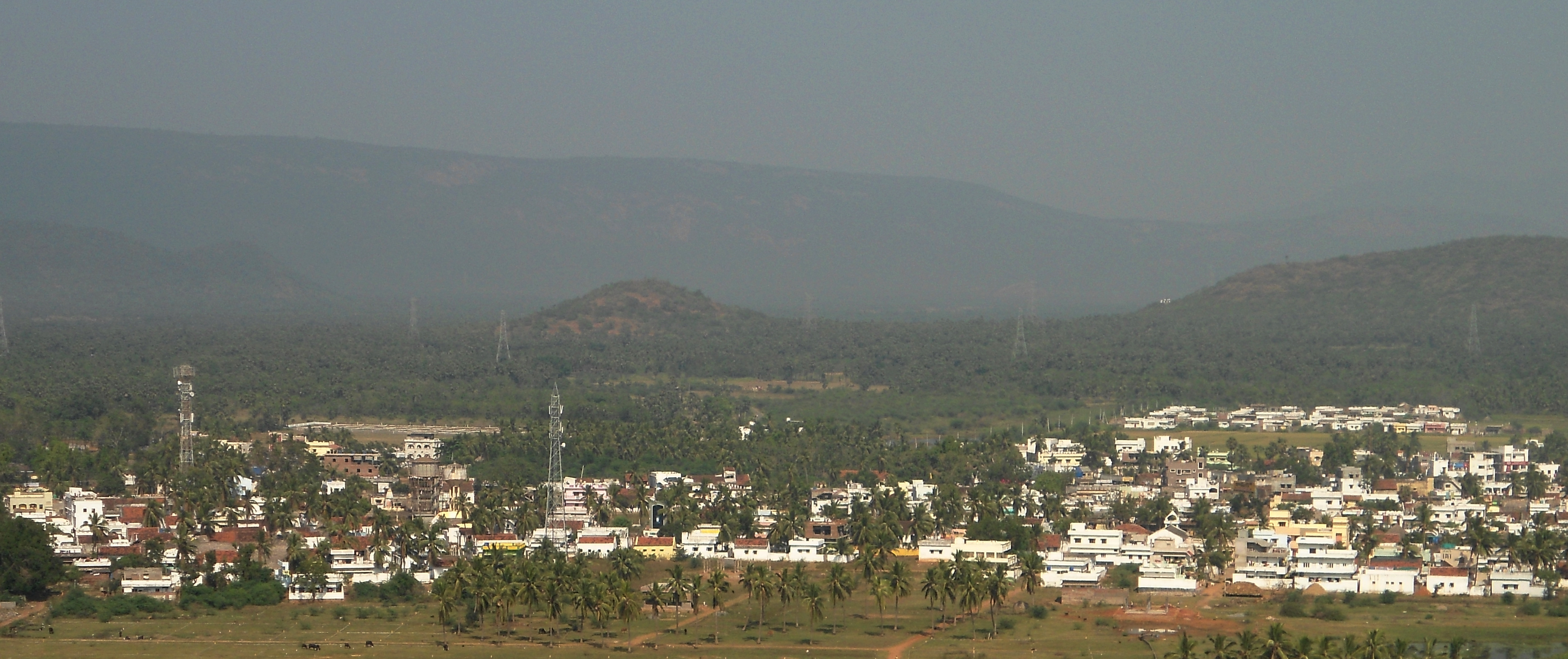 View of Nakkapalli town from Upamaka temple, Visakhapatnam district